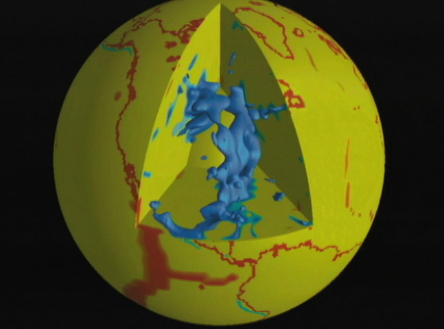 3D visualization of the remnants of the Farallon Plate in the Earth’s mantle, based on a geodynamic (continuum mechanic) computer model using the TERRA mantle software.